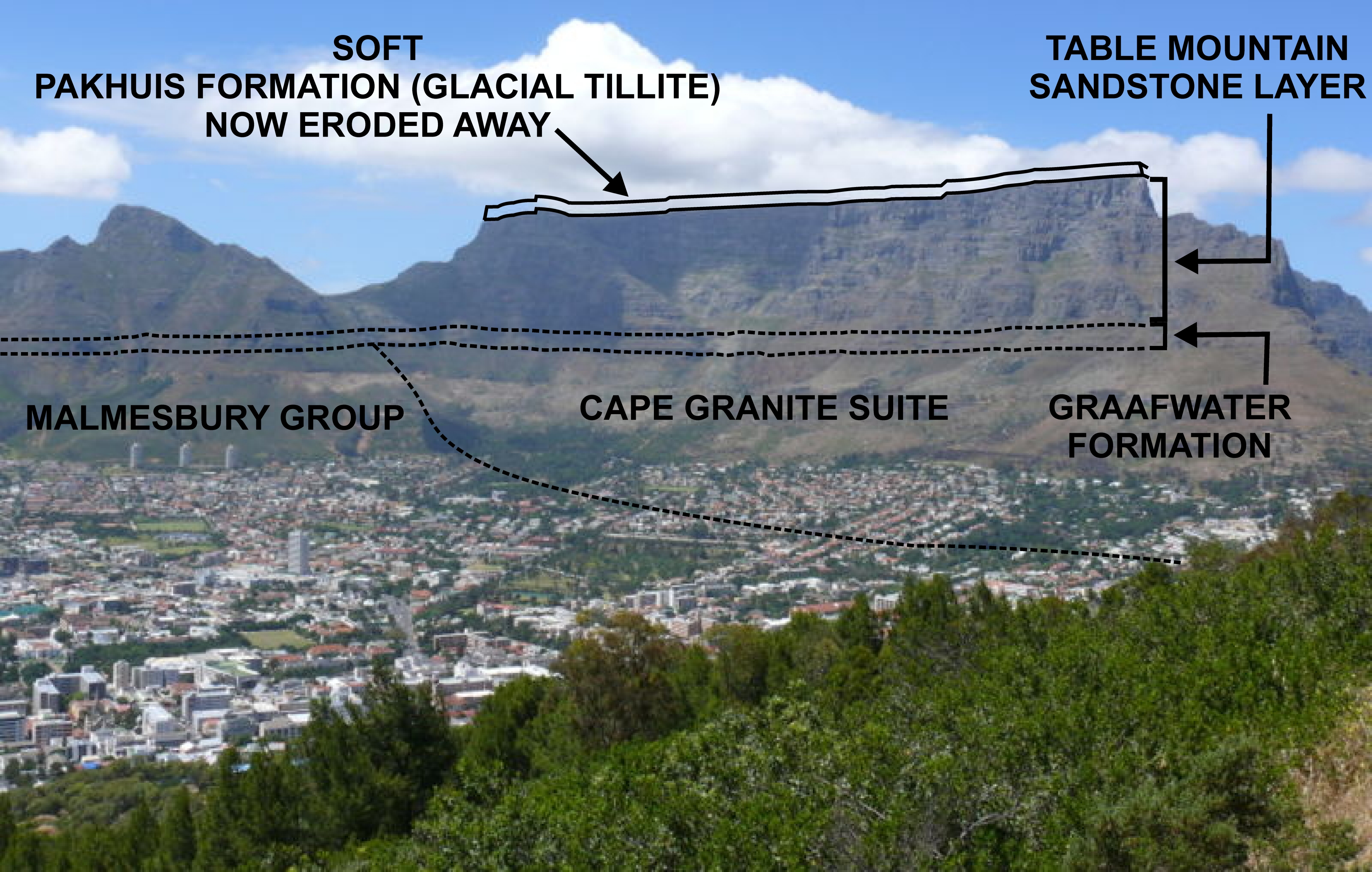 Adaptation of Hilton Teper's 19 September 2007 photograph "View from Signal Hill.jpg" to show the geology of Table Mountain